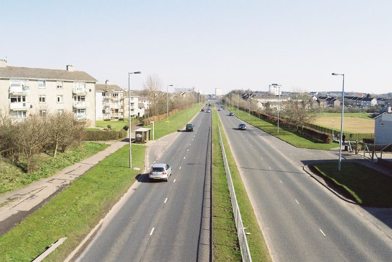 This road runs right behind the street where I used to live in Scotland.